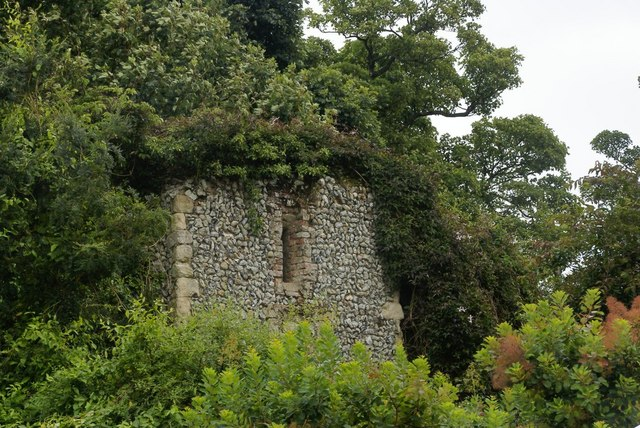 Ruins at Benington Lordship Part of a folly built from the remains of a Norman castle.